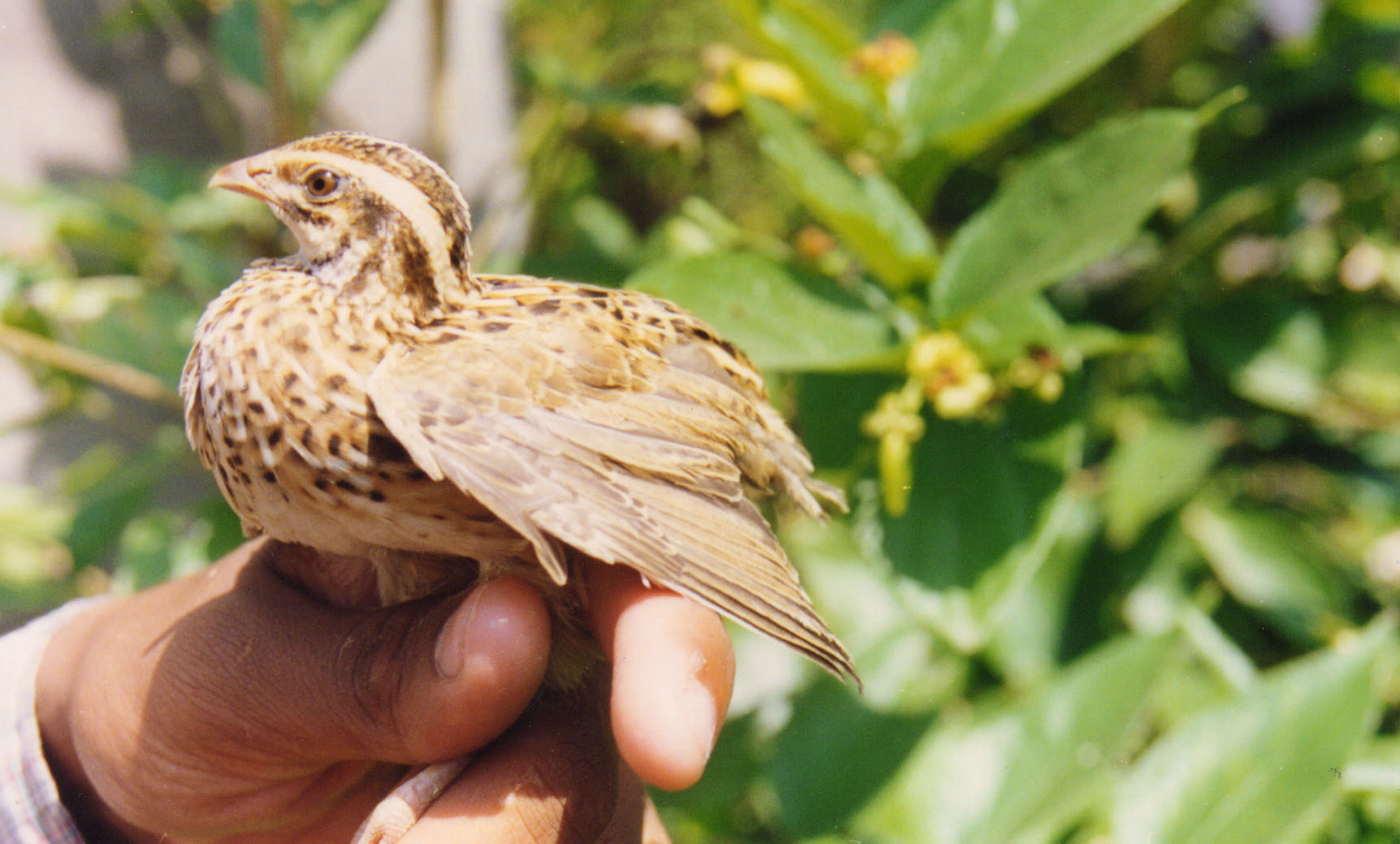 Rain Quail Coturnix coromandelica Female Amravati. Maharashtra, India